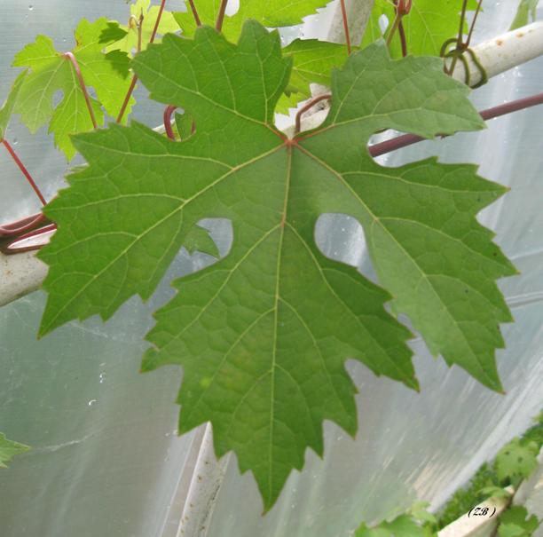 Leaf of 'Triumf' vine